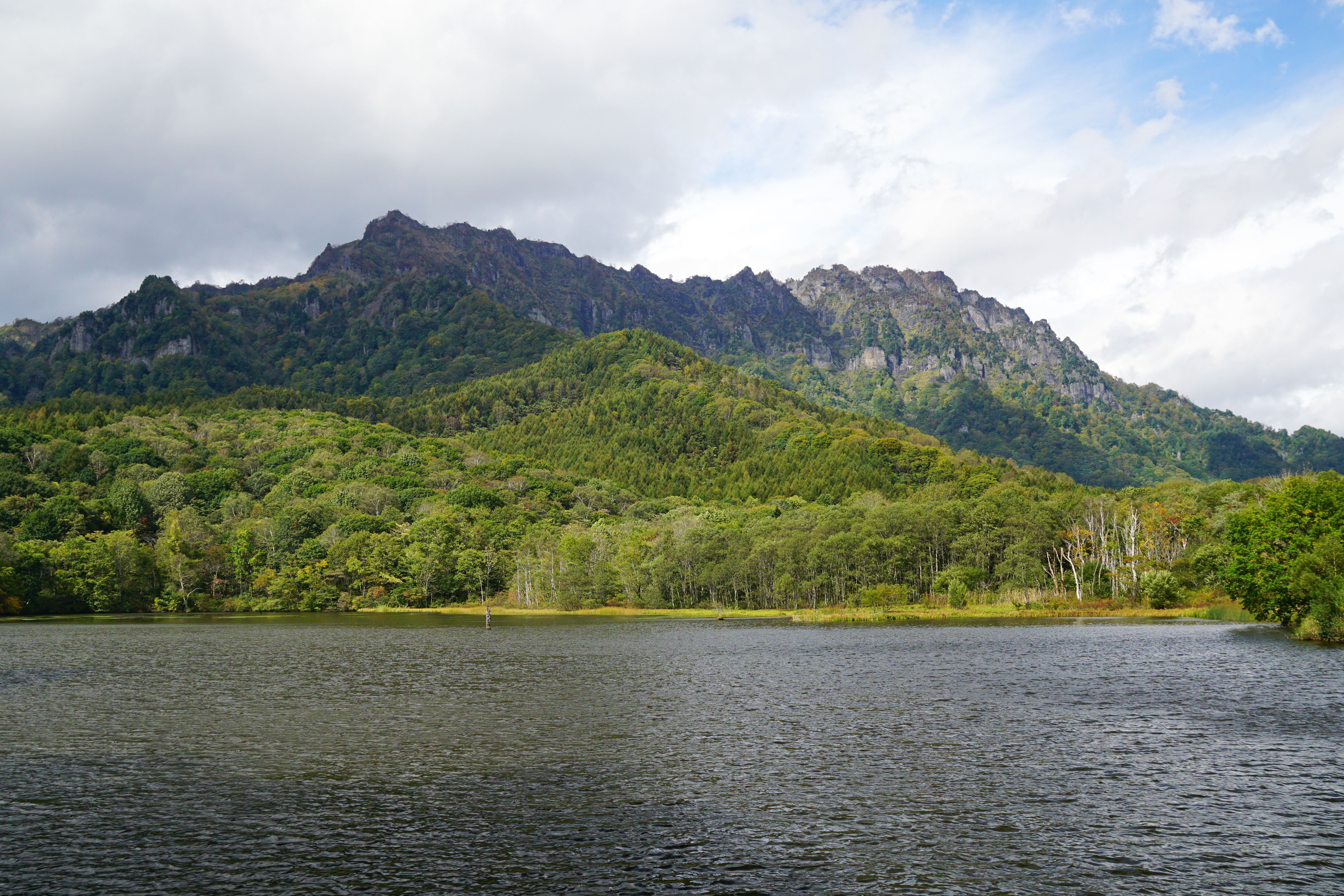 Kagami-ike and Togakushi Mountains in Nagano, Nagano Prefecture, Japan